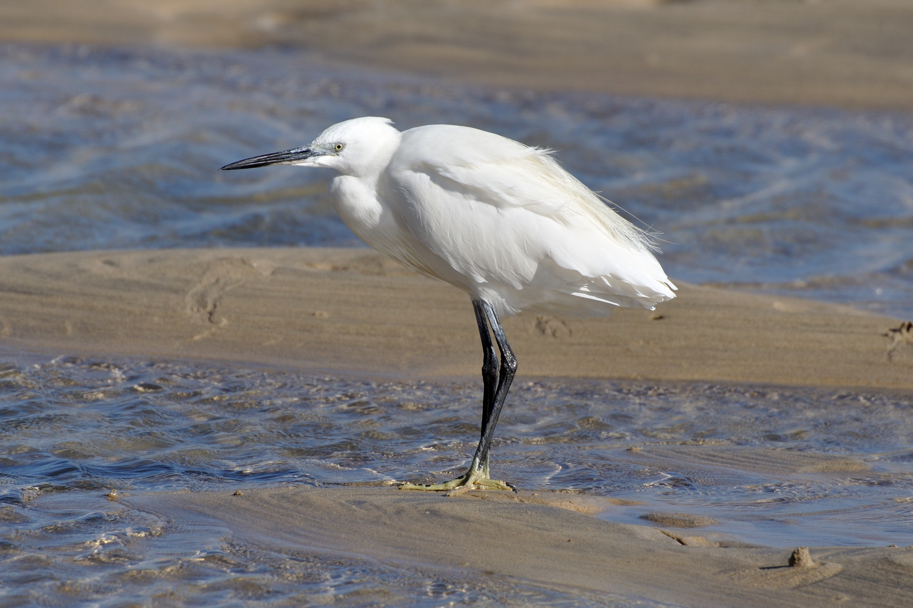 Spain, birds on the beach in Fuerteventura